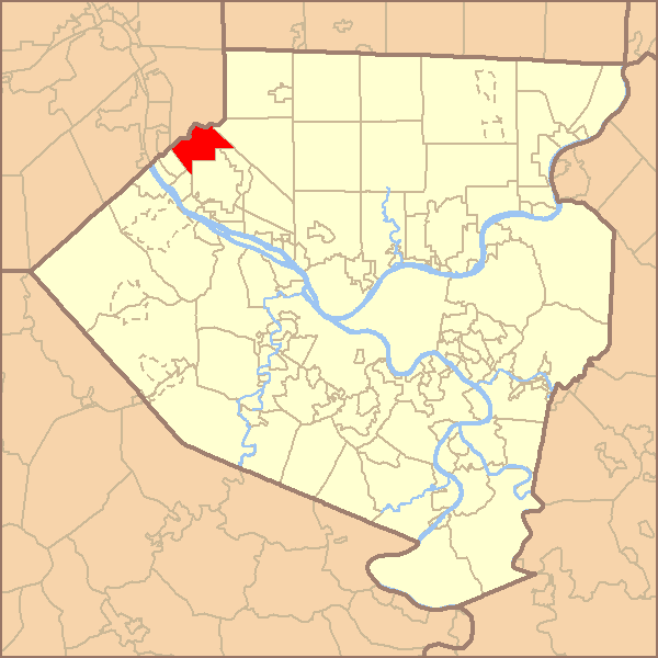 Map highlighting the municipality within Allegheny County, Pennsylvania.